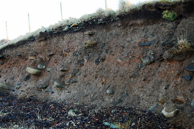 Boulder Clay Deposit Hoy has erosional features such as corries and U-shaped valleys. For much of Orkney, however, the majority of glacial features are depositional.